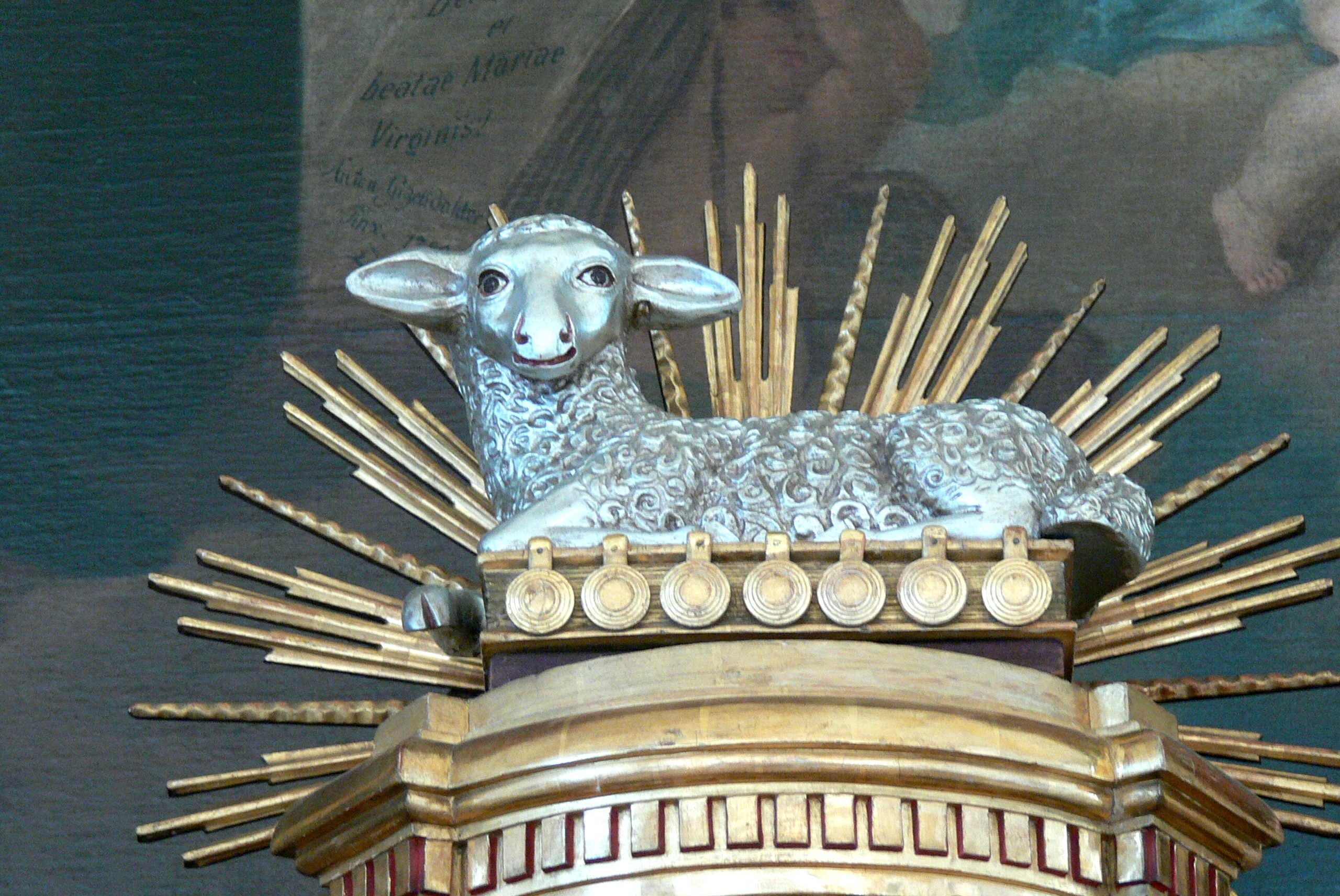 Peilstein ( Upper Austria ). Ss. Giles and Leonard parish church - Neoclassical high altar: Tabernacle ( 1789 ) - Lamb of God on the book with seven seals.